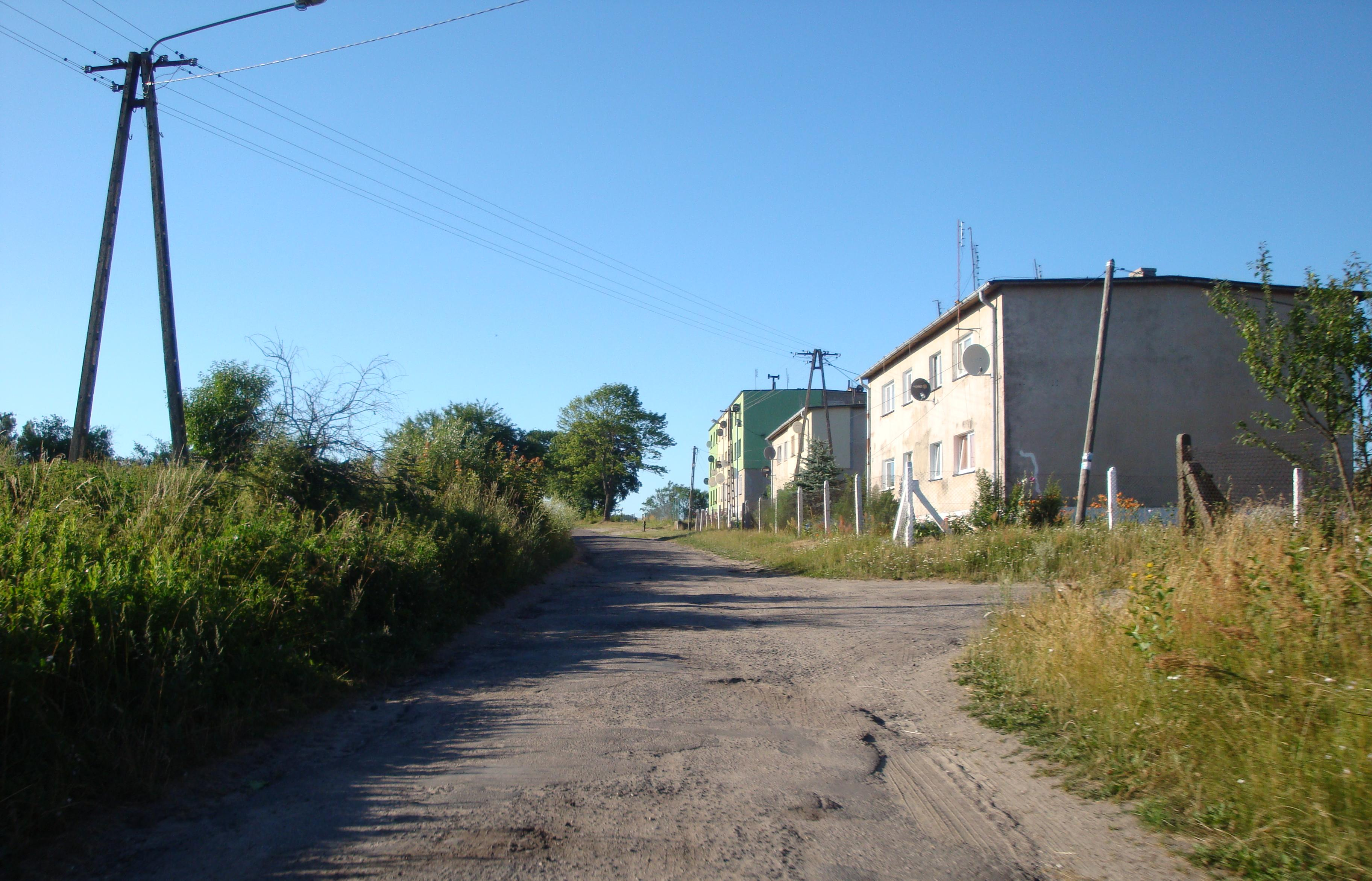 Nieckowo-village in Pomeranian Voivodeship, Poland.